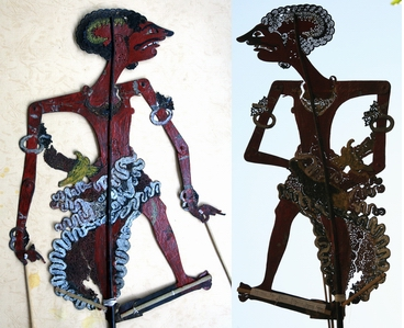 Samtanus, wayang kulit figure from the wayang shadow play Serat Menak Sasak